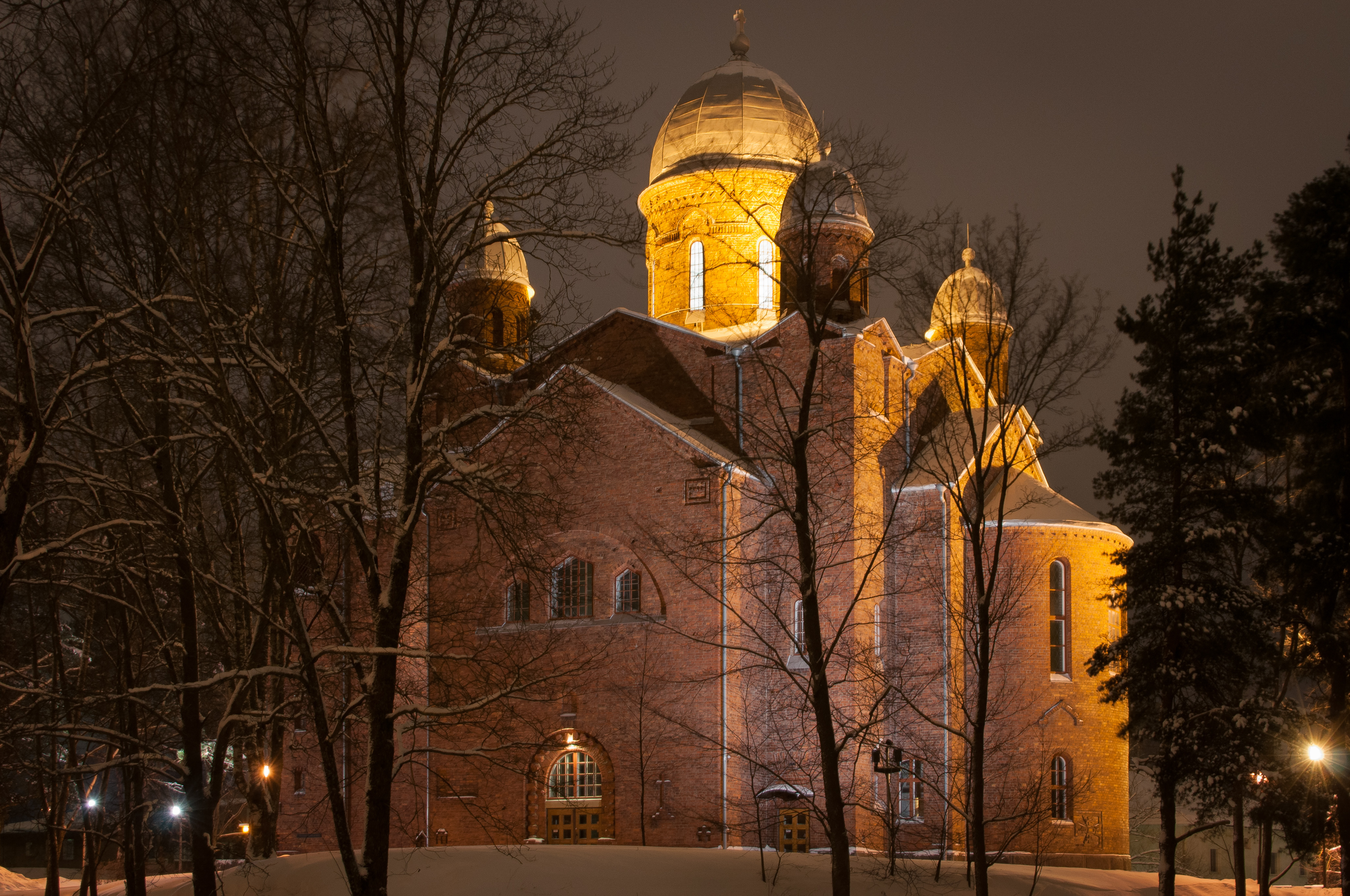 The Lappeenranta Church in Lappeenranta, Finland.